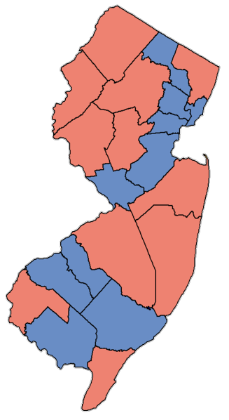 County-by-county breakdown of the 2000 United States Senate Election in New Jersey.